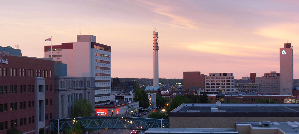 I Stu_pendousmat took this picture in the summer of 2007